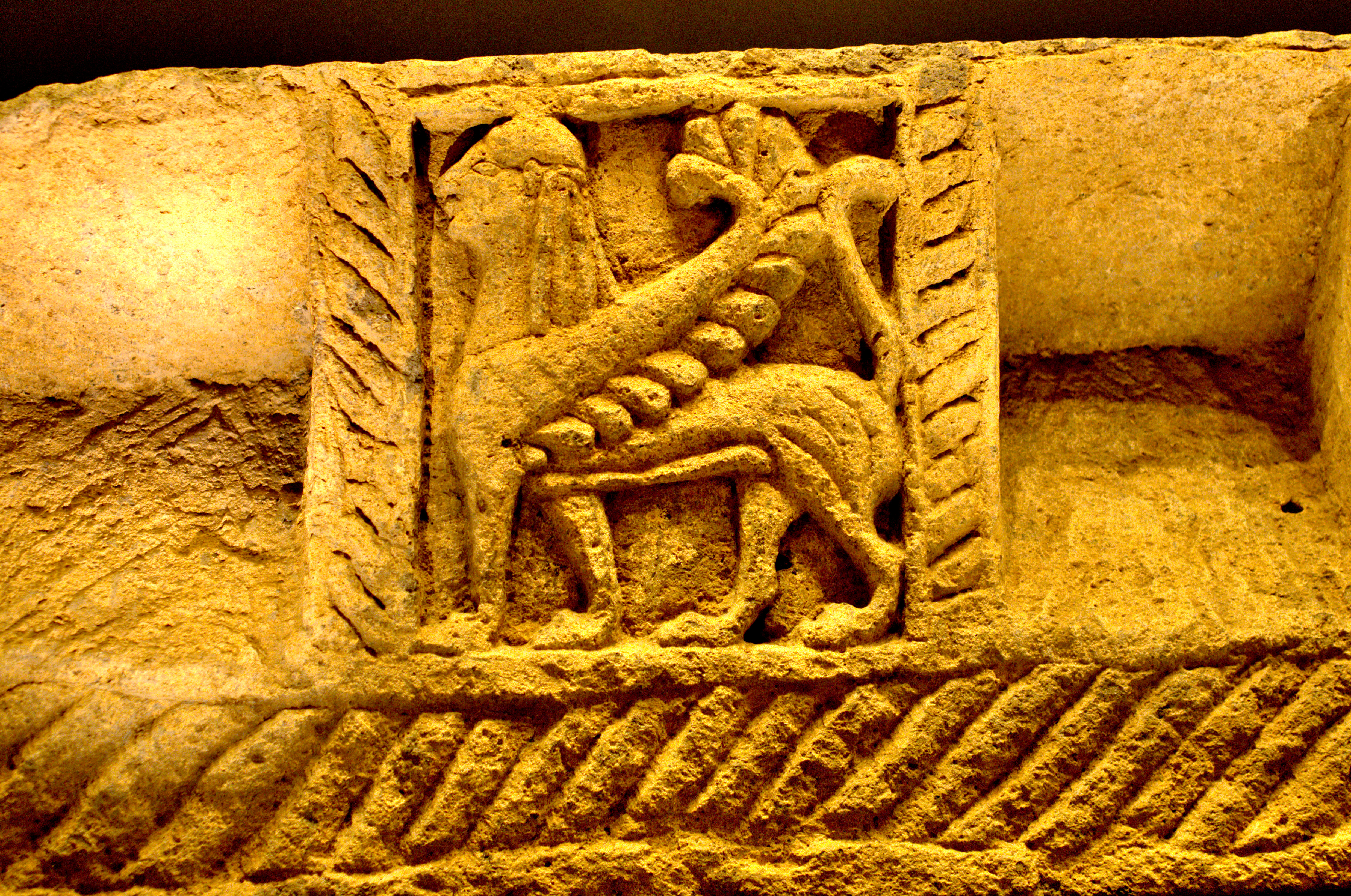 [Palazzo Vitelleschi] [Tarquinia], Viterbo VT, Italy Palazzo Vitelleschi, Sfinge, bassorilievo a scala in nenfro, arte etrusca arcaica, Tarquinia photo Paolo Villa VR 2016 [Archeological] [etruscan] copyright